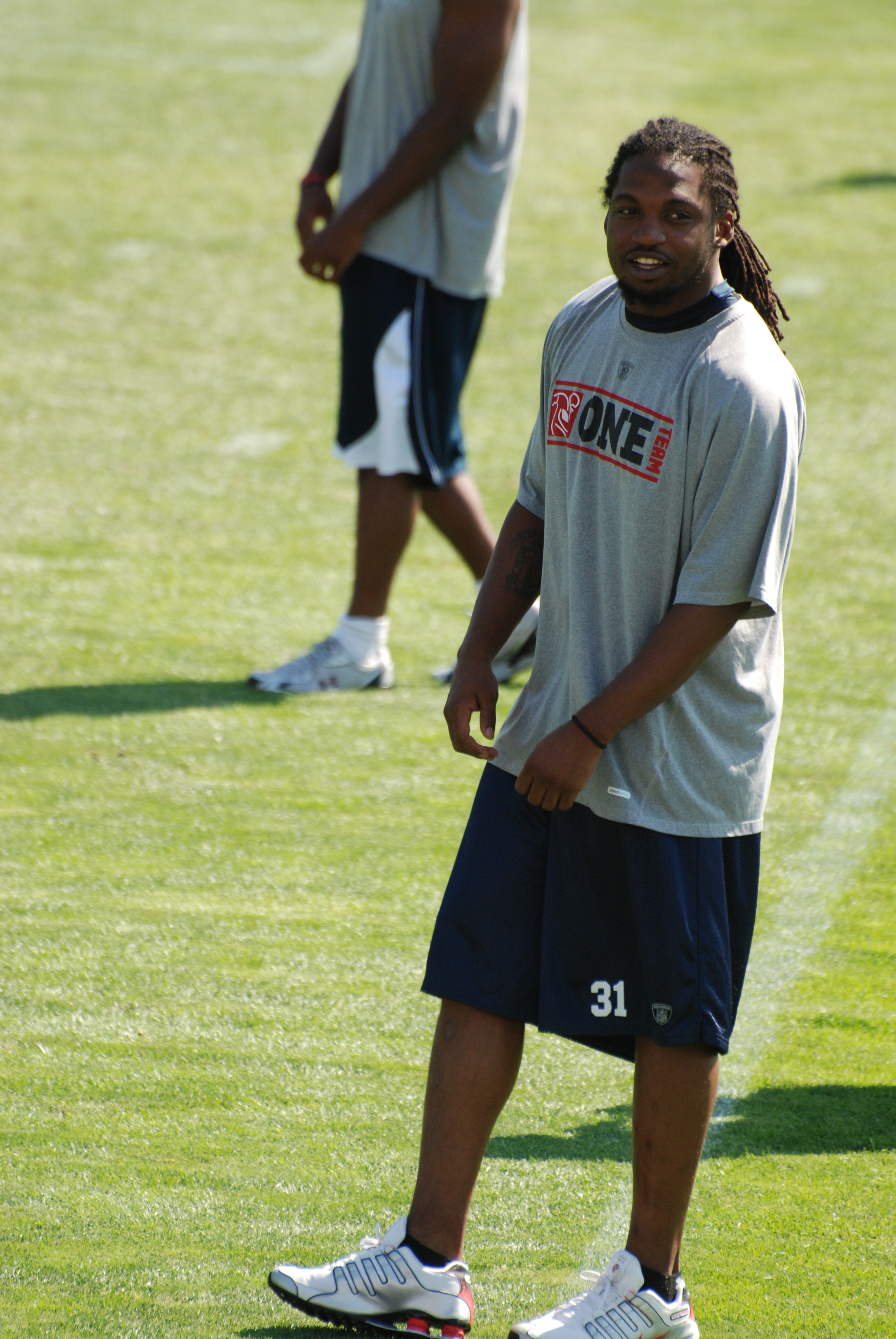 New England Patriots safety, Brandon Meriweather,at 2010 training camp.